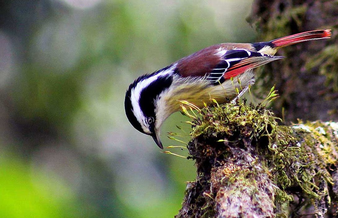 RED-tailed Minla